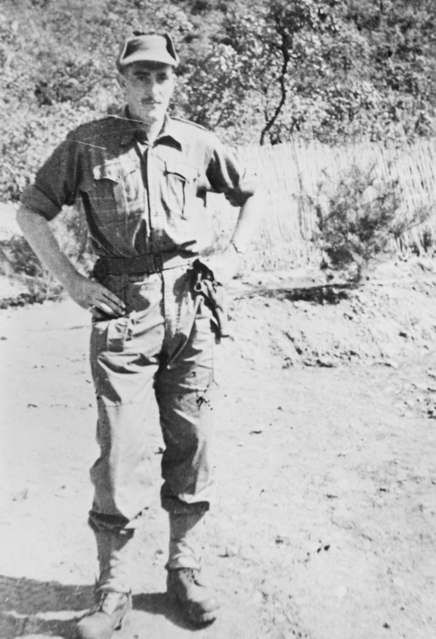 Informal portrait of Lieutenant William Brian "Digger" James, serving in the 1st Battalion, Royal Australian Regiment during the Korean War.